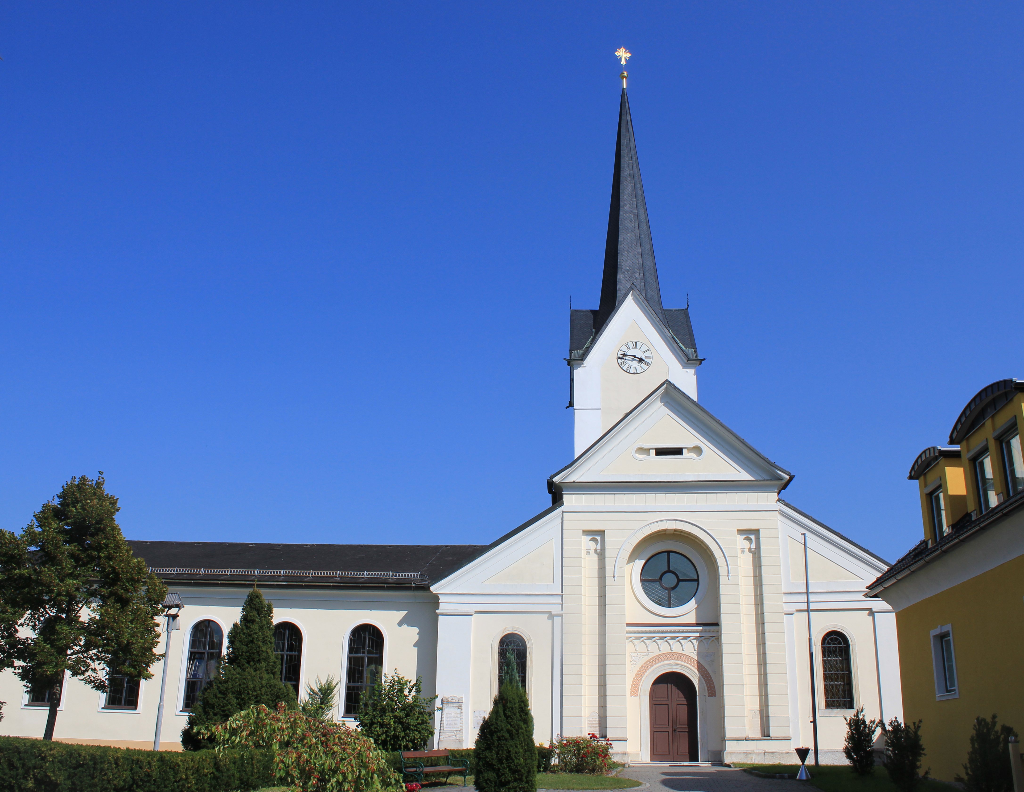 Parish church of Sankt Kanzian am Klopeiner See